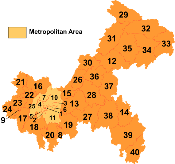 Map of Chongqing